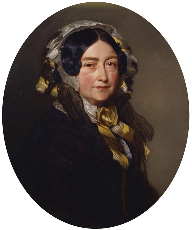 Princess Victoria, Duchess of Kent and Strathearn